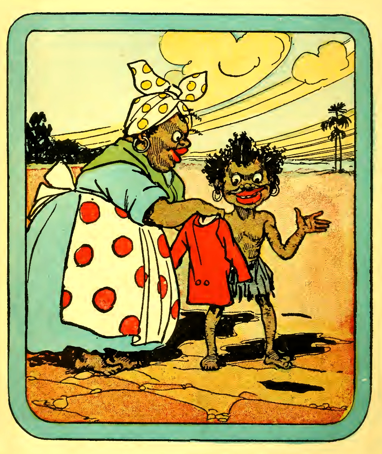 Little Black Sambo and his mother Black Mumbo